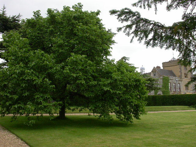 Canons Ashby House and Mulberry Tree. Very pleasant gardens and good views over parkland and countryside.